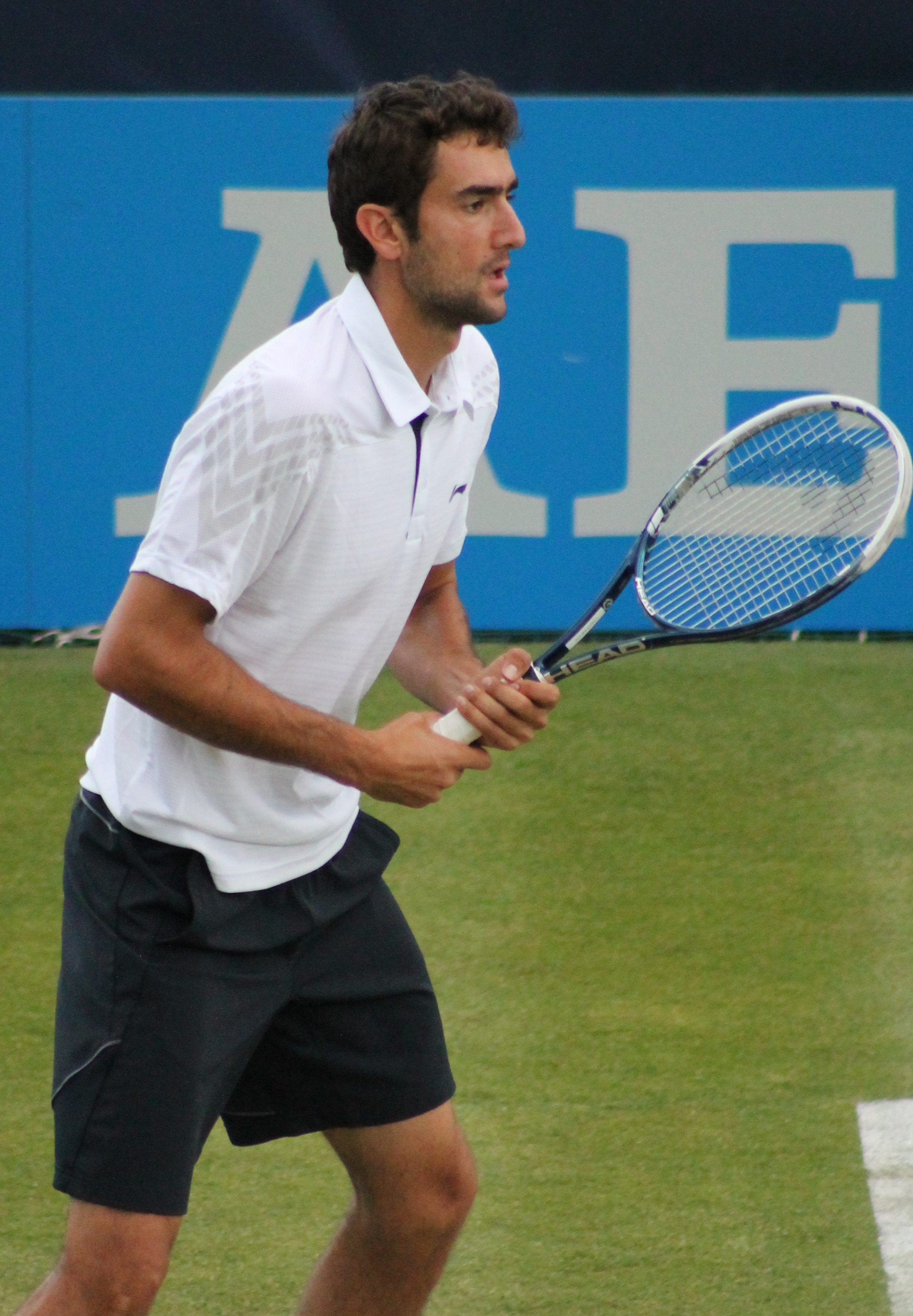 Cilic QC13-026